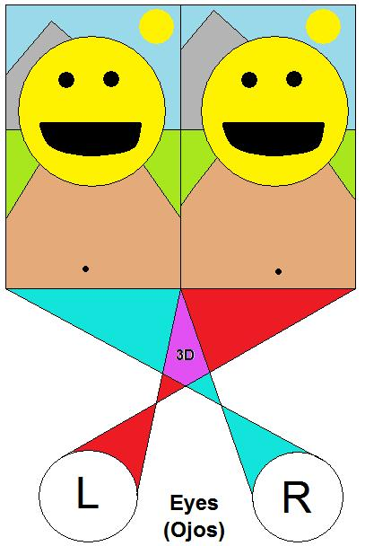 Here we see how the 3D effect is perceived when the eyes are crossed. This image shows how to cross your eyes you can achieve the 3D effect because with this method, each eye sees only one image (the corresponding image to each eye is contrary to eye with the beholder, ie the left eye sees the right image and the right eye sees the left image.